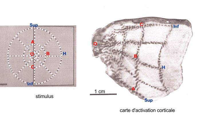 DG autoradiograph showing th effect of retinotopic stimulus, R B Tootell et al., Functional Anatomy of Macaque Striate Cortex. II Retinotopic organization, Jour of neuroscience,8 ,5 , 1988